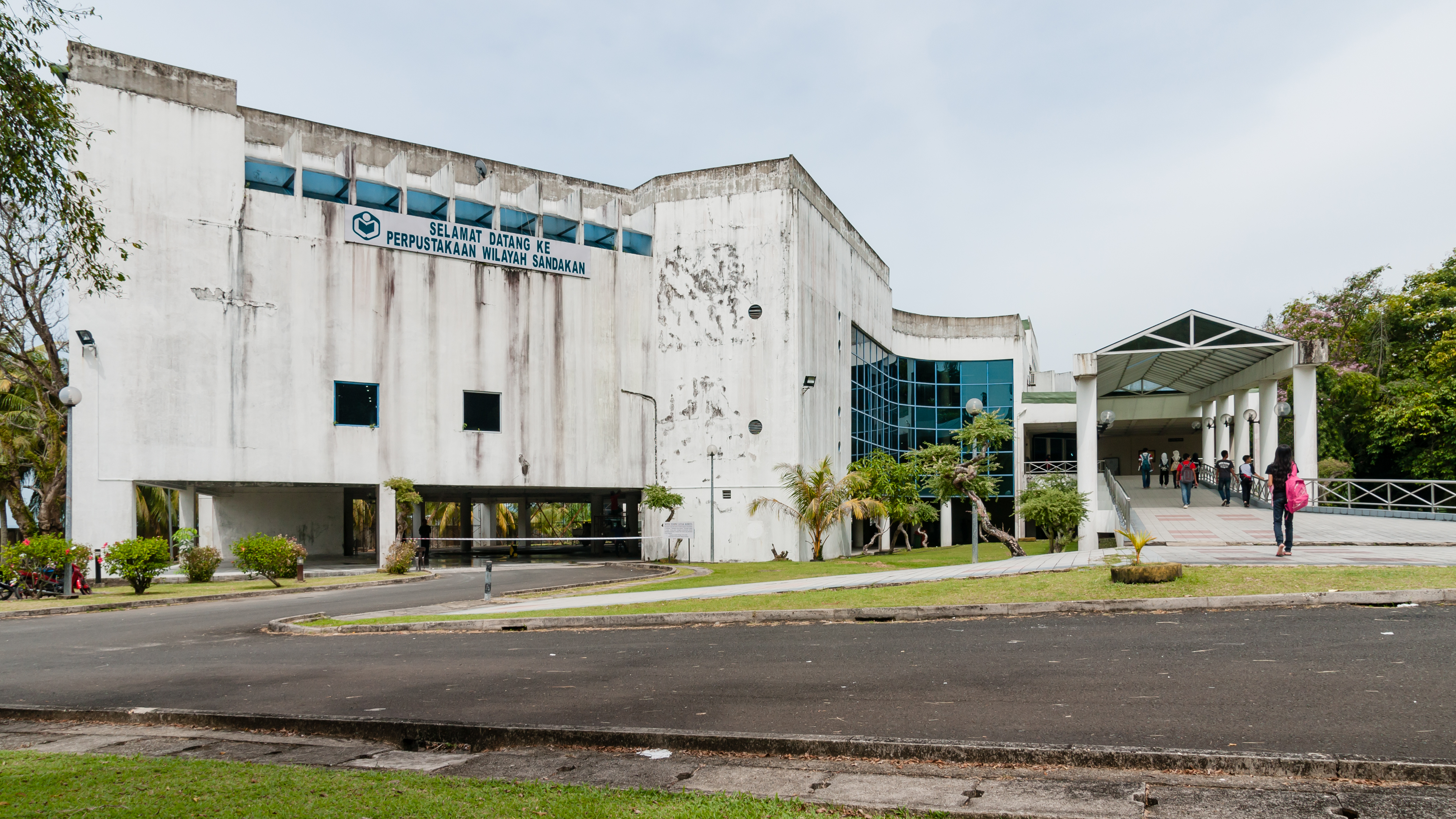 Sandakan, Sabah: Sandakan Regional Library (Perpustakaan Wilayah Sandakan)